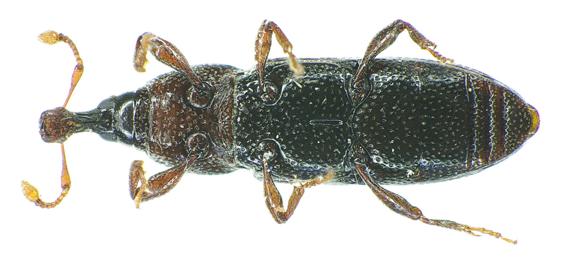 Cossonus linearis from Southern Germany